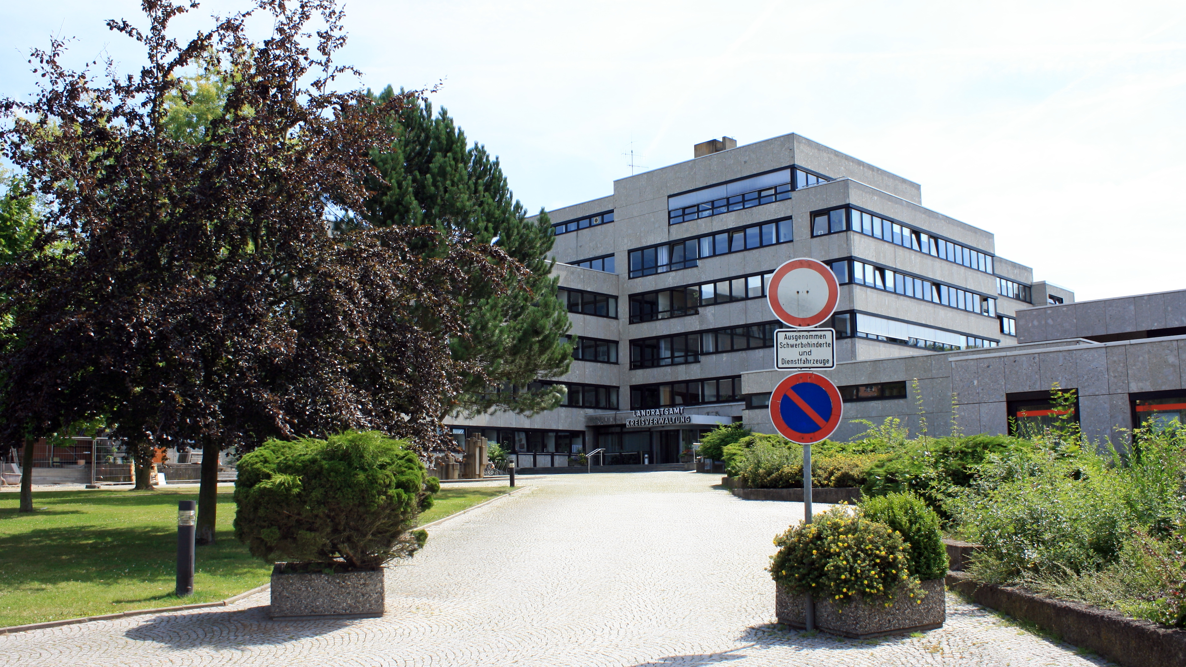 District office/county administration of district Marburg-Biedenkopf in Marburg-Cappel